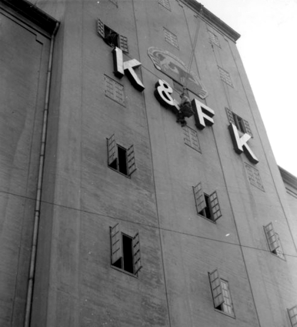 Korn- og Foderstof Kompagniet. Pakhus ved kornpieren.